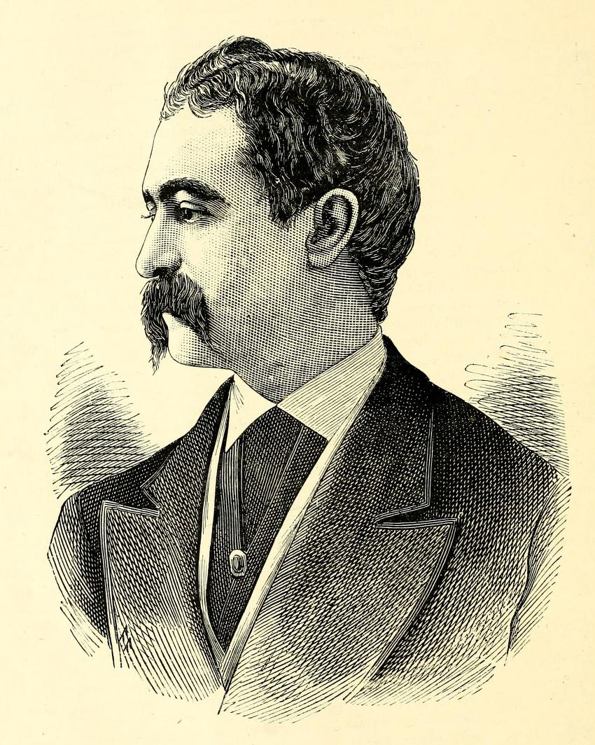 American pianist and composer Alfred Humphreys Pease (1838-1882). Portrait published in: Frederick Humphreys. The Humphreys family in America. - New York : Humphreys, 1883. - Vol 1, p. 200.